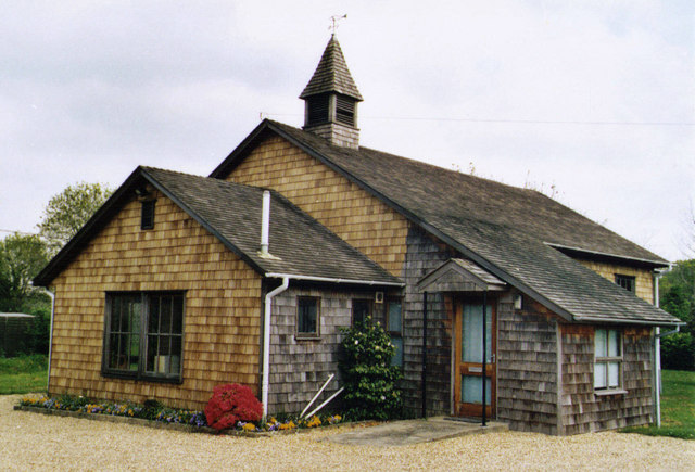 St Nicholas, Pilley Built in 1964.